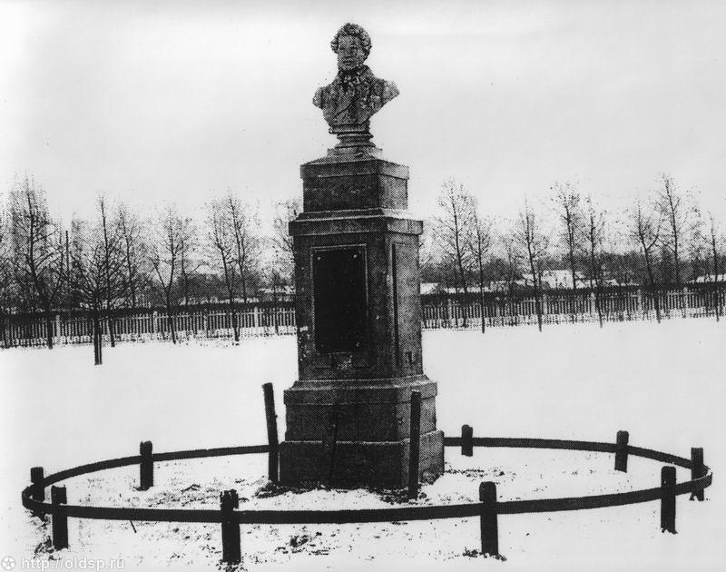 The first monument on Pushkin's duel place, Saint-Petersburg.